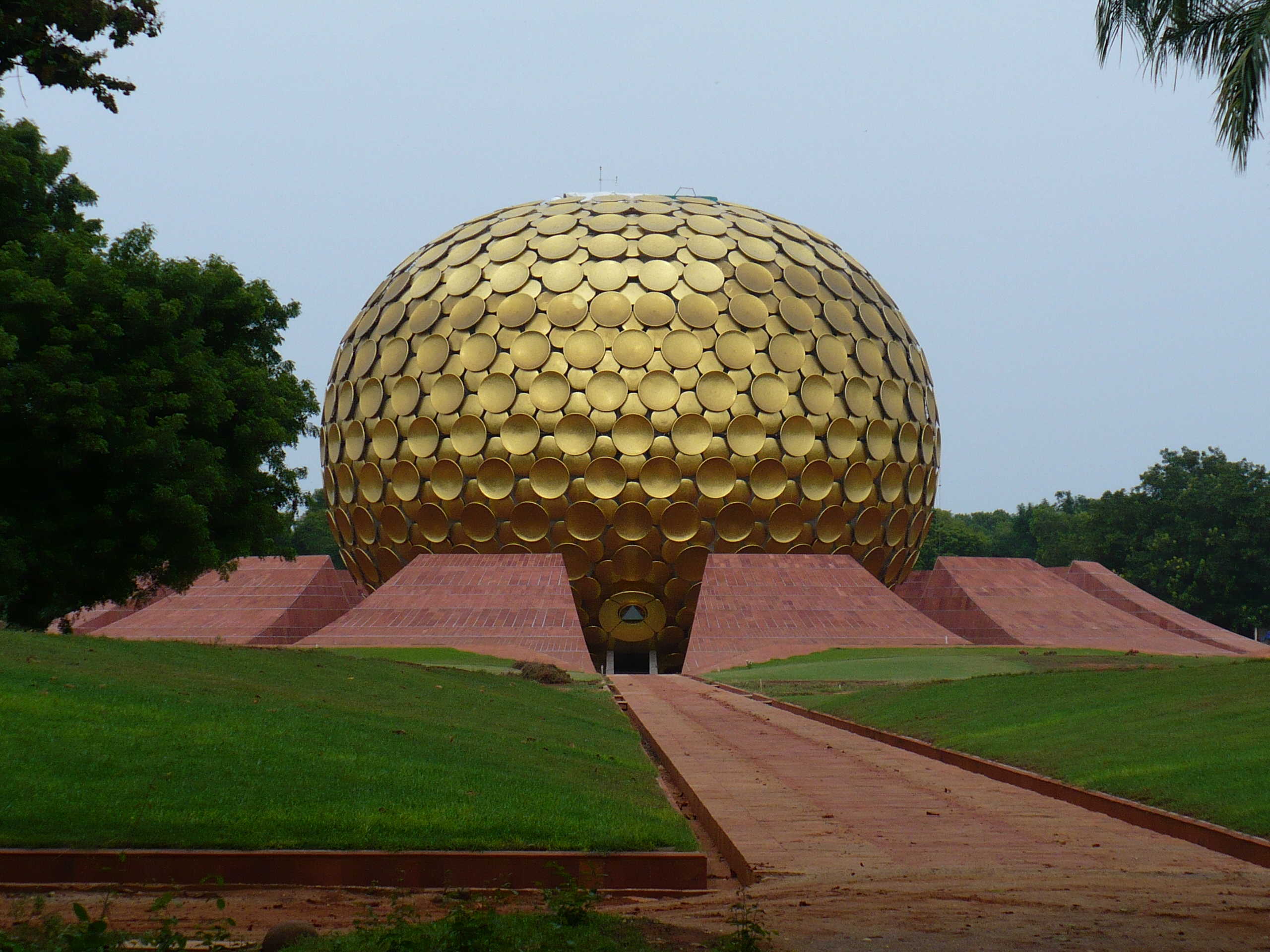 By Nikhil Kulkarni